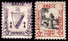 Stamps of the Fédération régionaliste de Bretagne, 1903 and 1904, respectively.